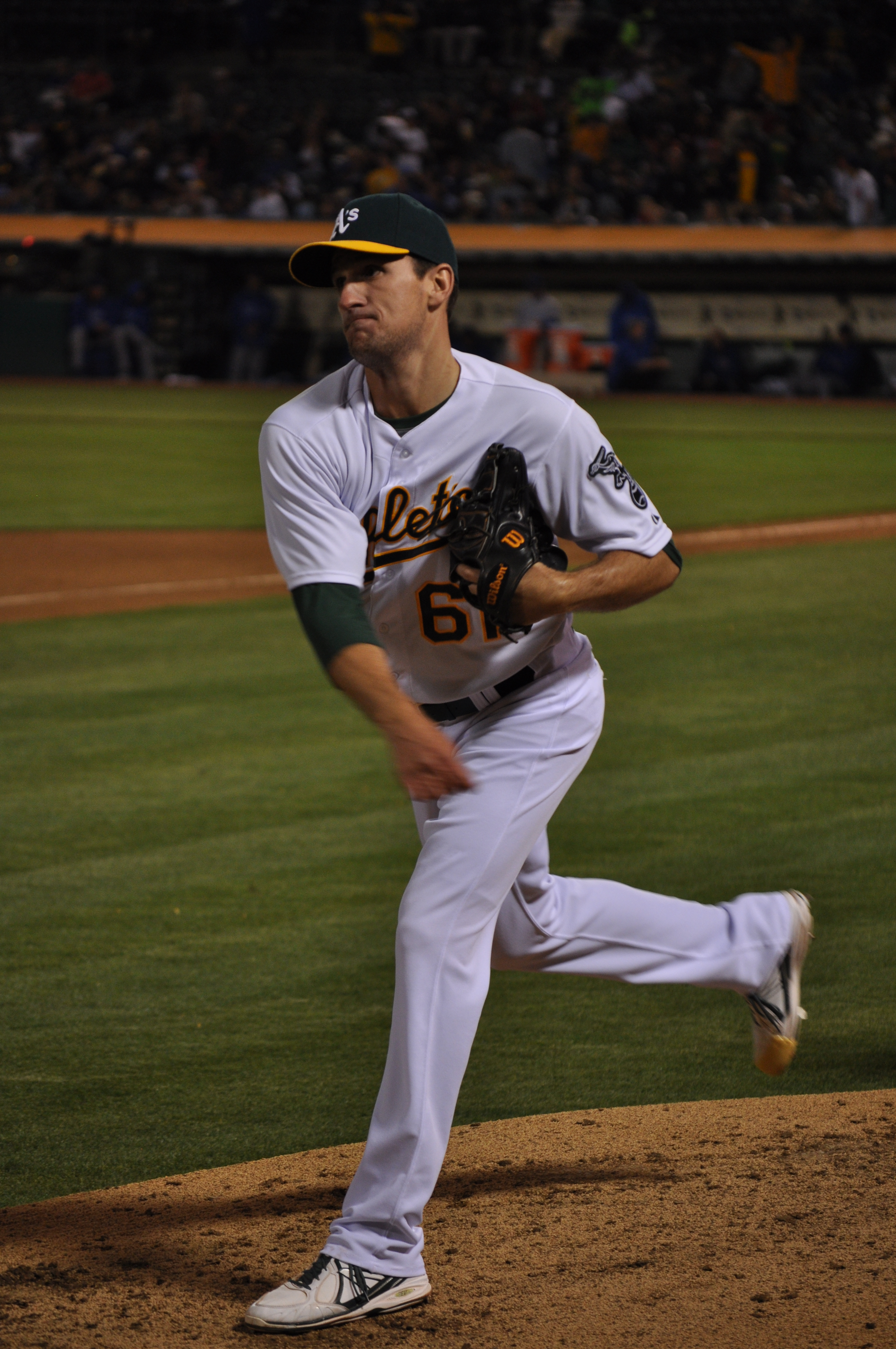 Dan warms up before his first big league win against the Cubs on 7/2/13 in Oakland